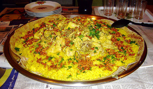 Mansaf as served in an Jordanian household.